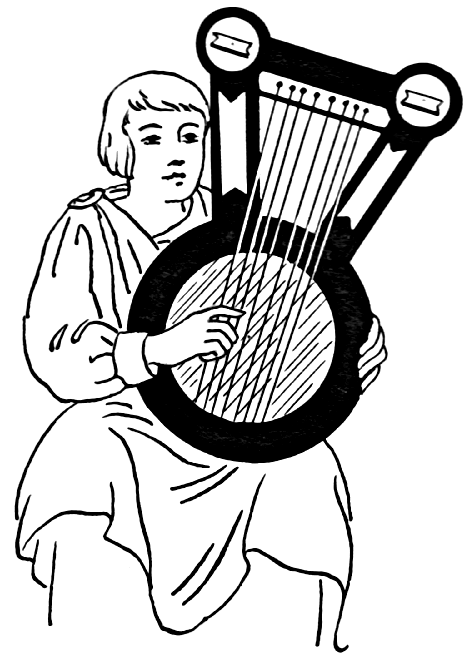 Line art drawing of psaltery.